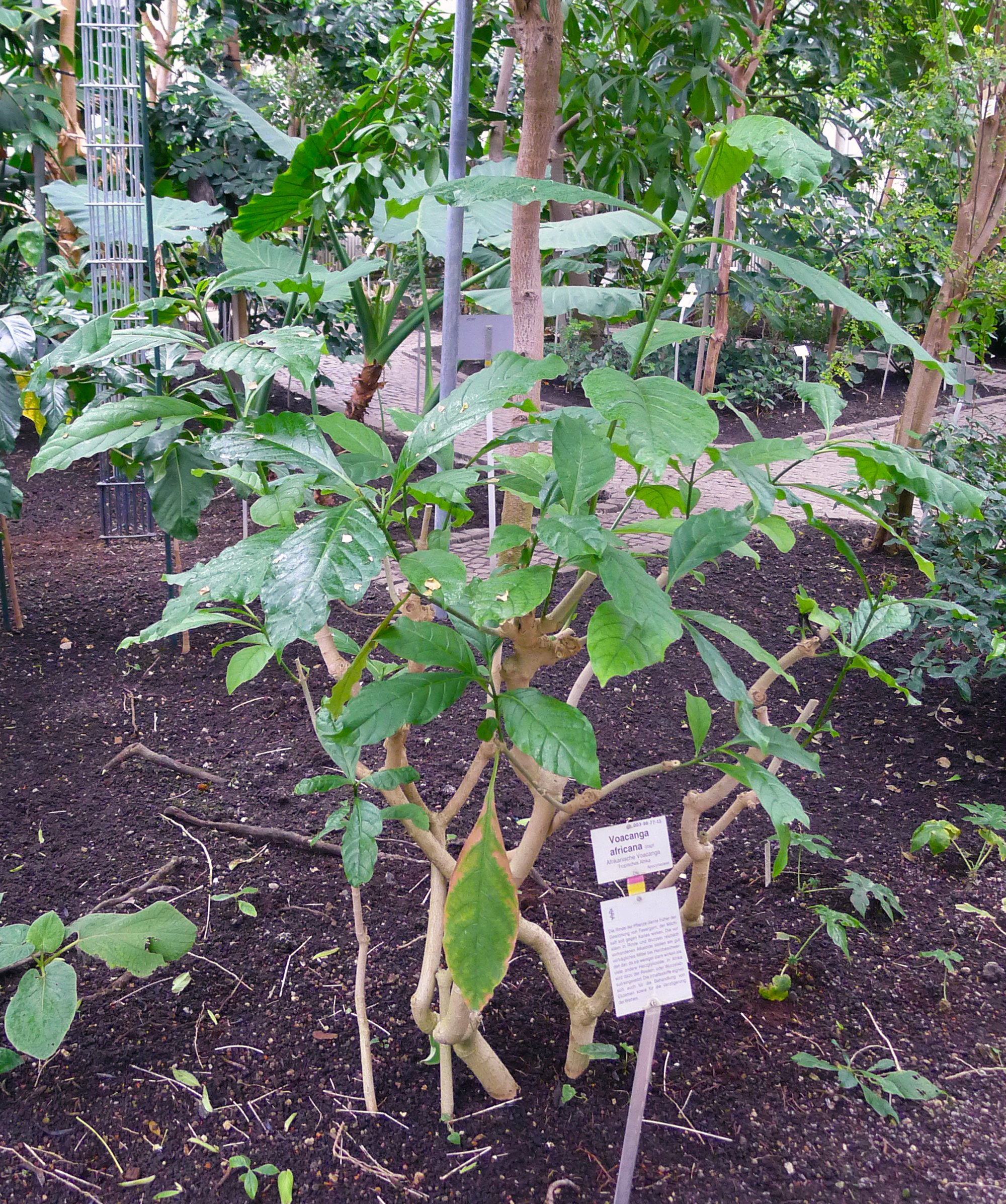 Voacanga africana (Berlin Botanical Garden)